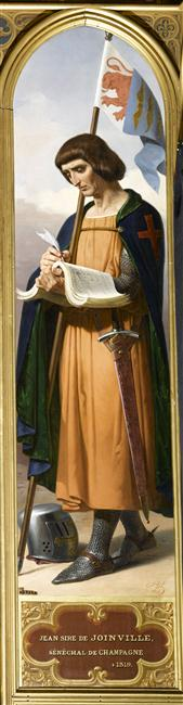 Jean de Joinville, seneschal of Champagne